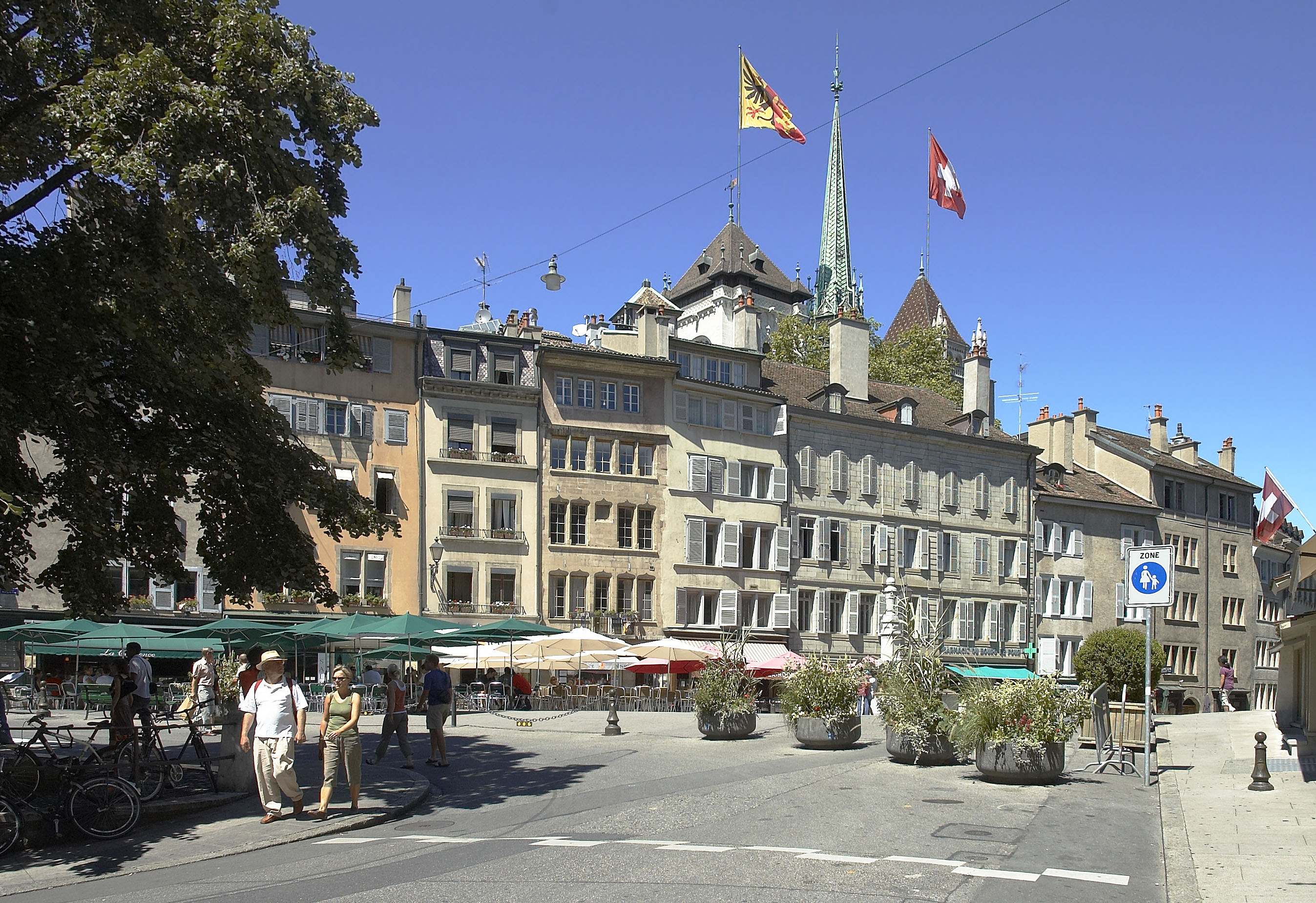 Place du Bourg de Four in Geneva